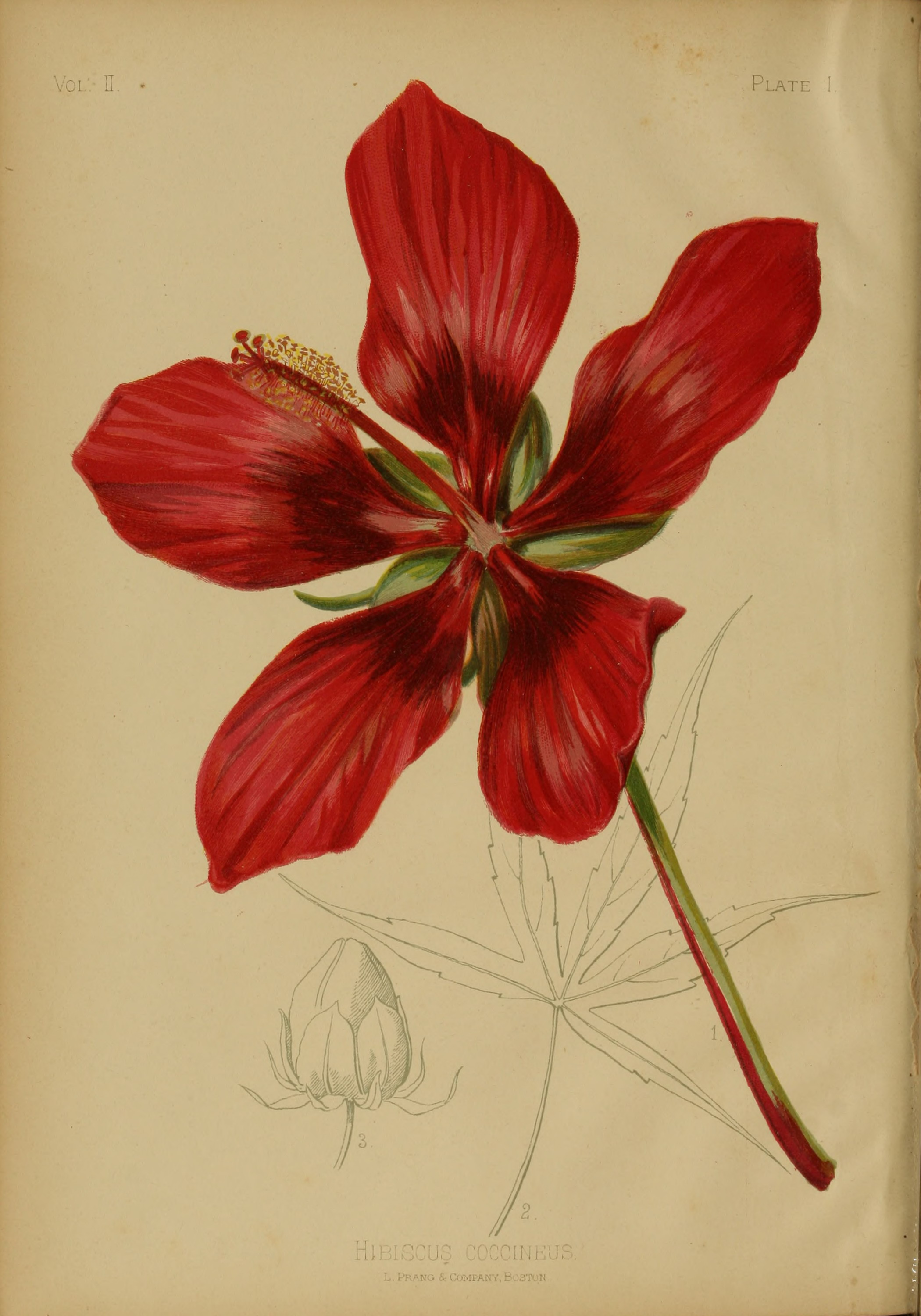 The Native Flowers and Ferns of the United States in their botanical, horticultural and popular aspects, Volume II (1879), Original Image Page 8, by Thomas Meehan Original Image Page 8.